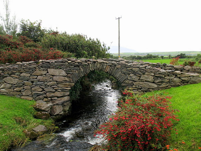 Garfinny Bridge Garfinny bridge is reputedly the oldest surviving bridge in Ireland. It is a medieval bridge and has been recently restored. It is the only bridge to be declared a national monument of Ireland. The top of the bridge is about 3m above the water. It has no mortar to hold it together. Its arch consists of radial stones which ‘spring’ from stones which project over the river in a corbelling technique. It may have been standing in 1580 when, according to local legend, Lord Deputy Grey and 800 troops passed over it. They were on their way to Smerwick Harbour to execute 600 men women and children . (This information is all taken from an information board located beside the bridge.)